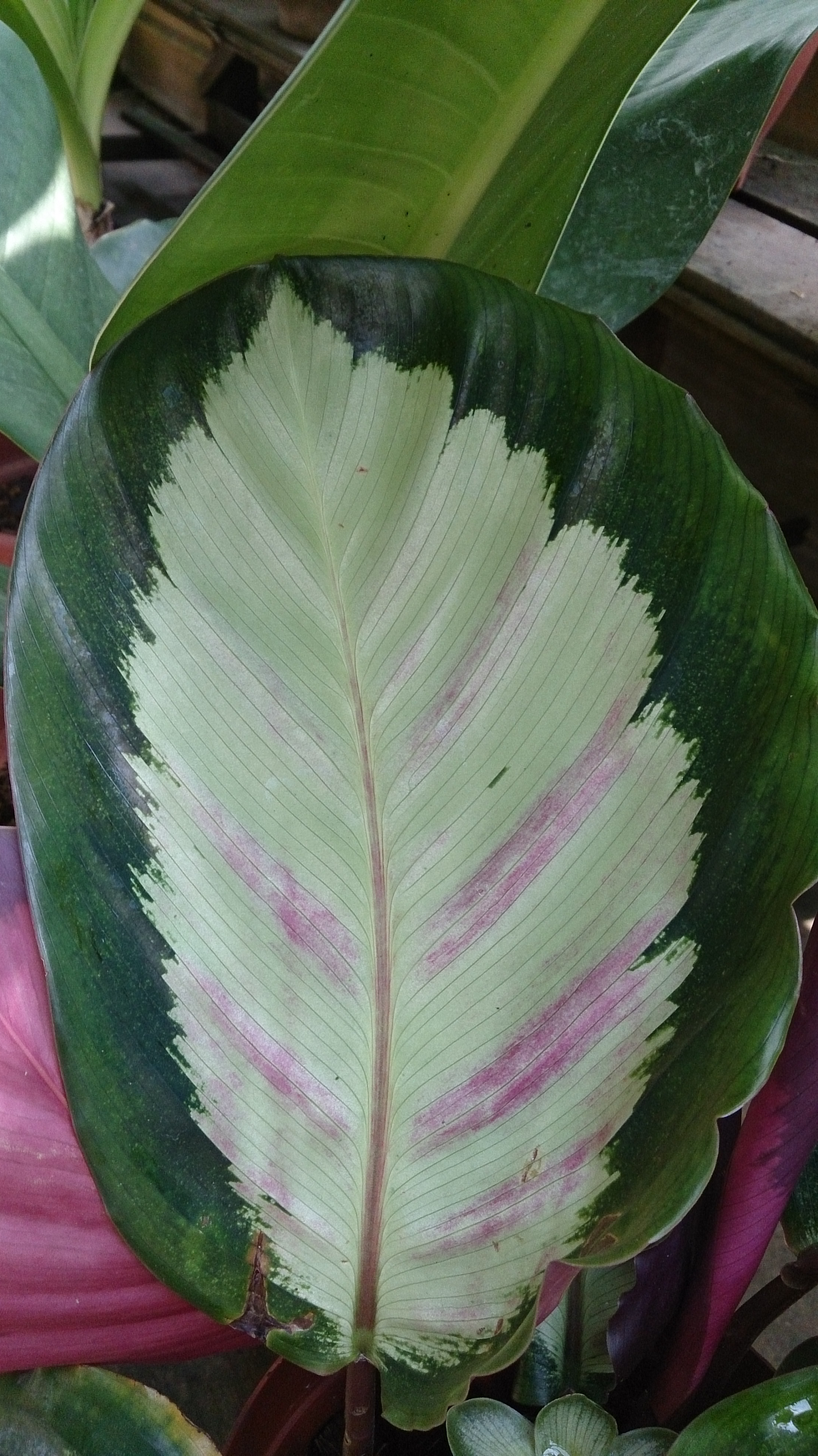 Calathea picturata 'Argentea'